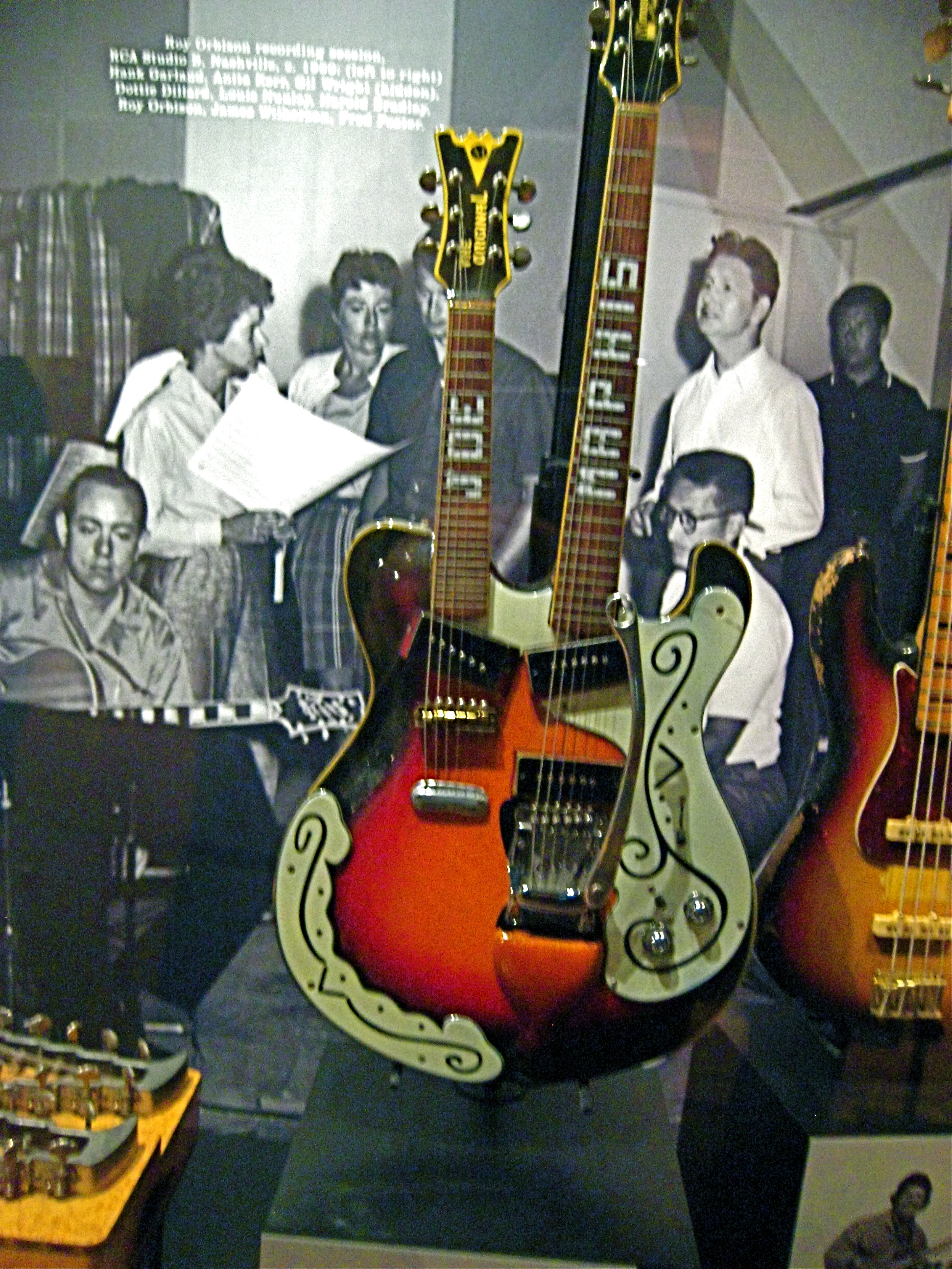 Joe Maphis's double-neck Mosrite guitar, specially built for him by Semie Moseley.